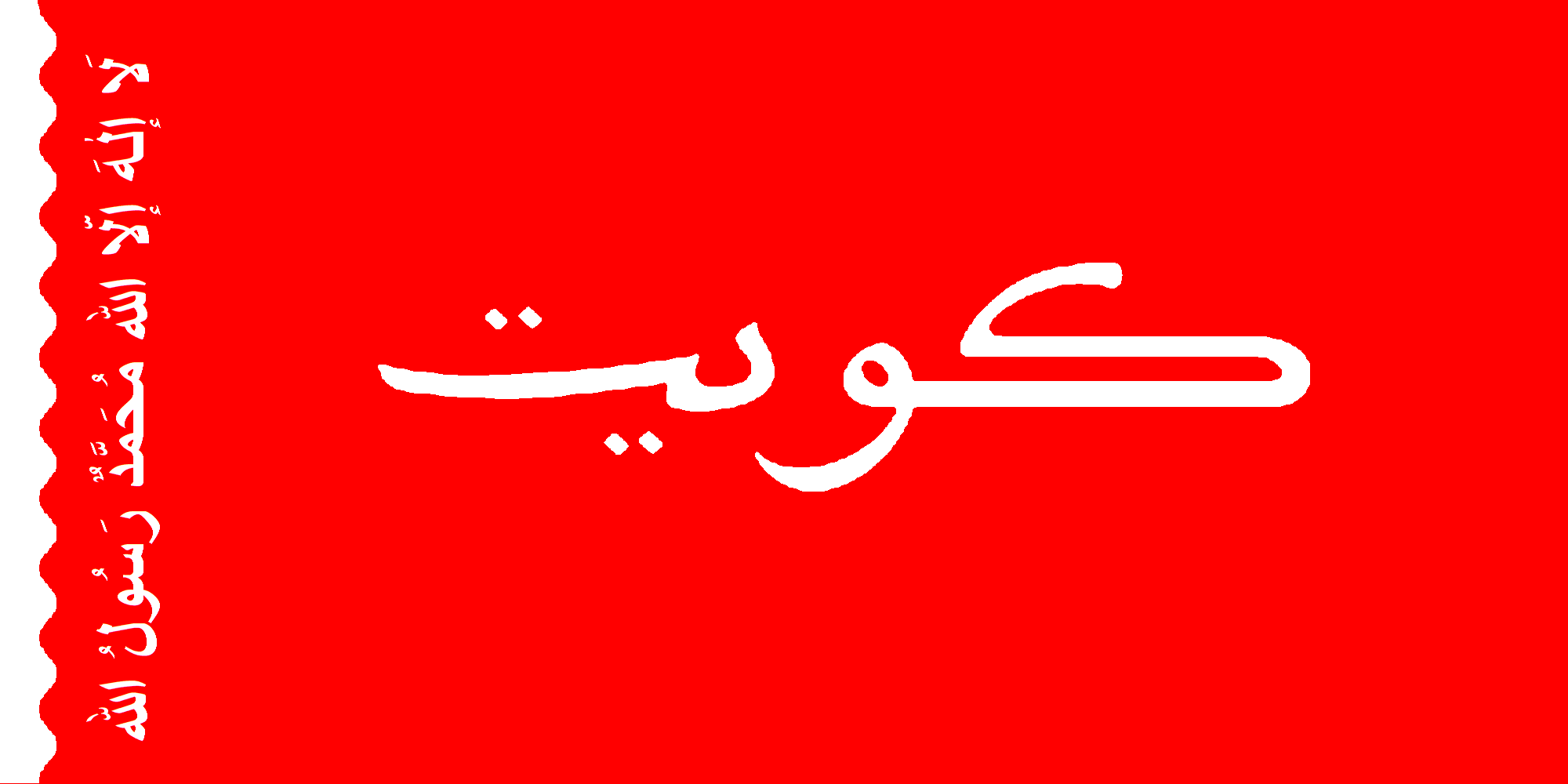 The National Flag of Kuwait used between 1956 and 1961 has a scarlet field with a narrow white vertical stripe at the hoist - the scarlet edge adjoining this stripe being wavy. The word "KUWAIT" in Arabic, also in white, is superimposed along the horizontal center line of the field. There are four versions of this flag: two have rectangular fields and two triangular. One of each of these pairs is charged with the Arabic shahada in white, positioned along the aforesaid wavy edge. The triangular pattern without the inscription is used by most of the subjects. The rectangular one is used for maritime usage.